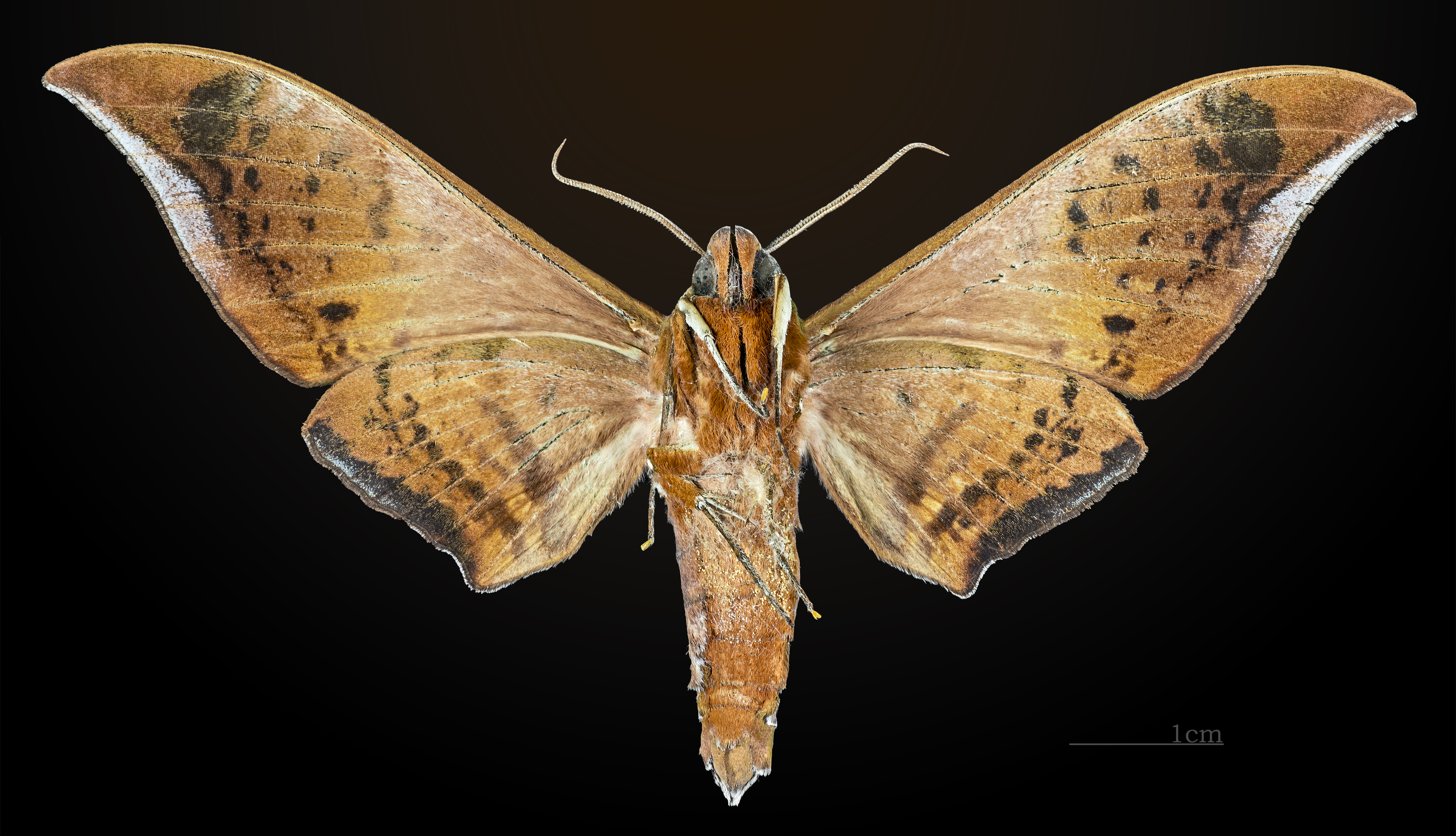 Ambulyx bakeri - △ Ventral side Collection of the Mathematician Laurent Schwartz